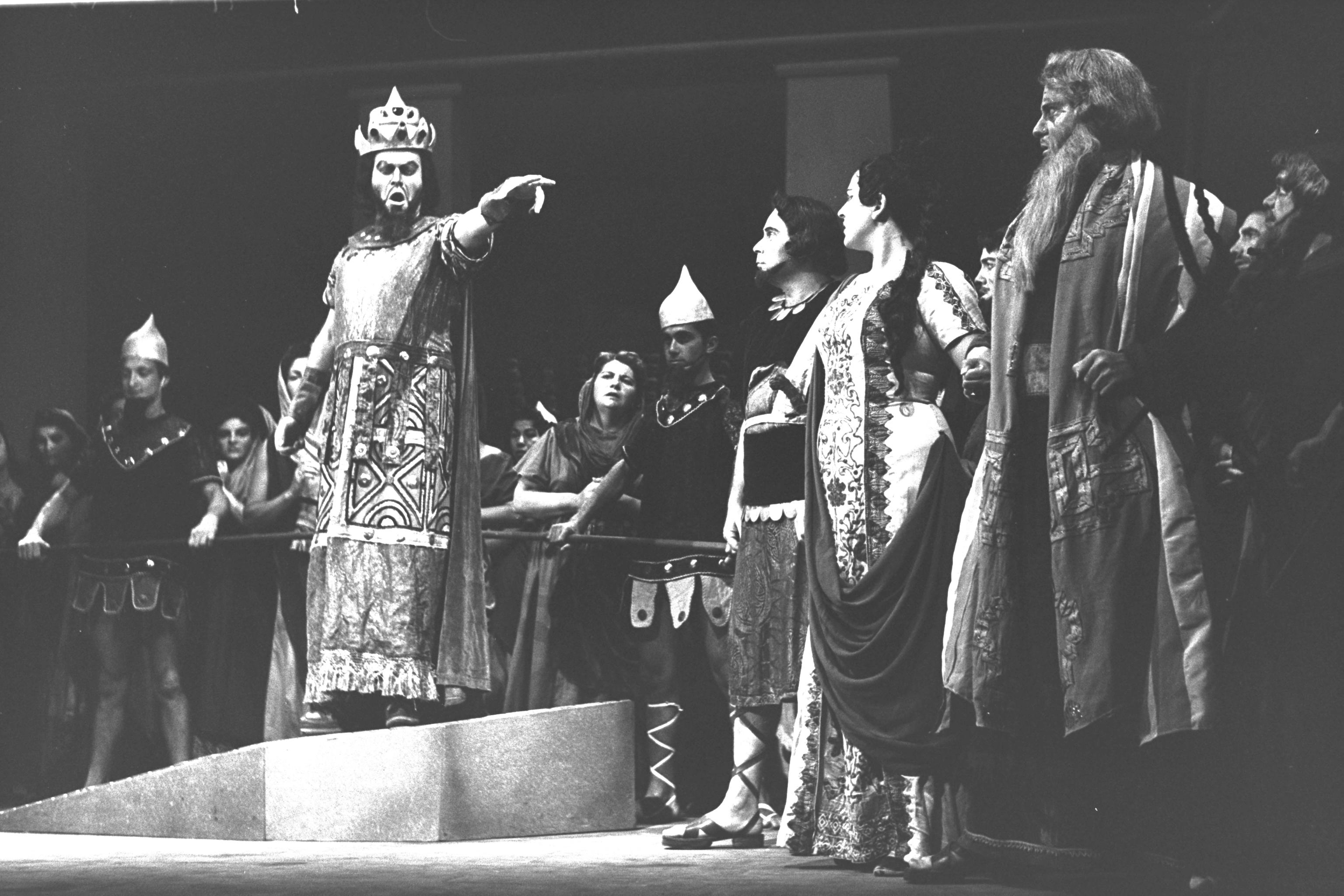 THE 1ST ACT OF VERDI'S - NABUCCO. YAACOF RODIN AS ISHMAEL, NEOMI PINKUS AND RAFAEL POLANI.